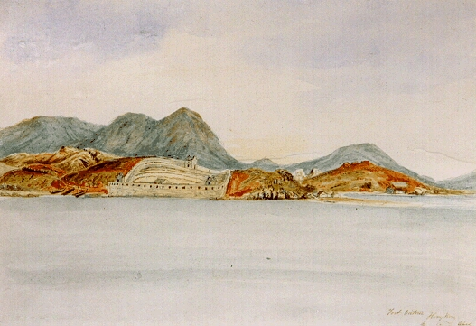 Barren Kowloon in 1841. Shown is a Chinese fort called Fort Victoria by the English.